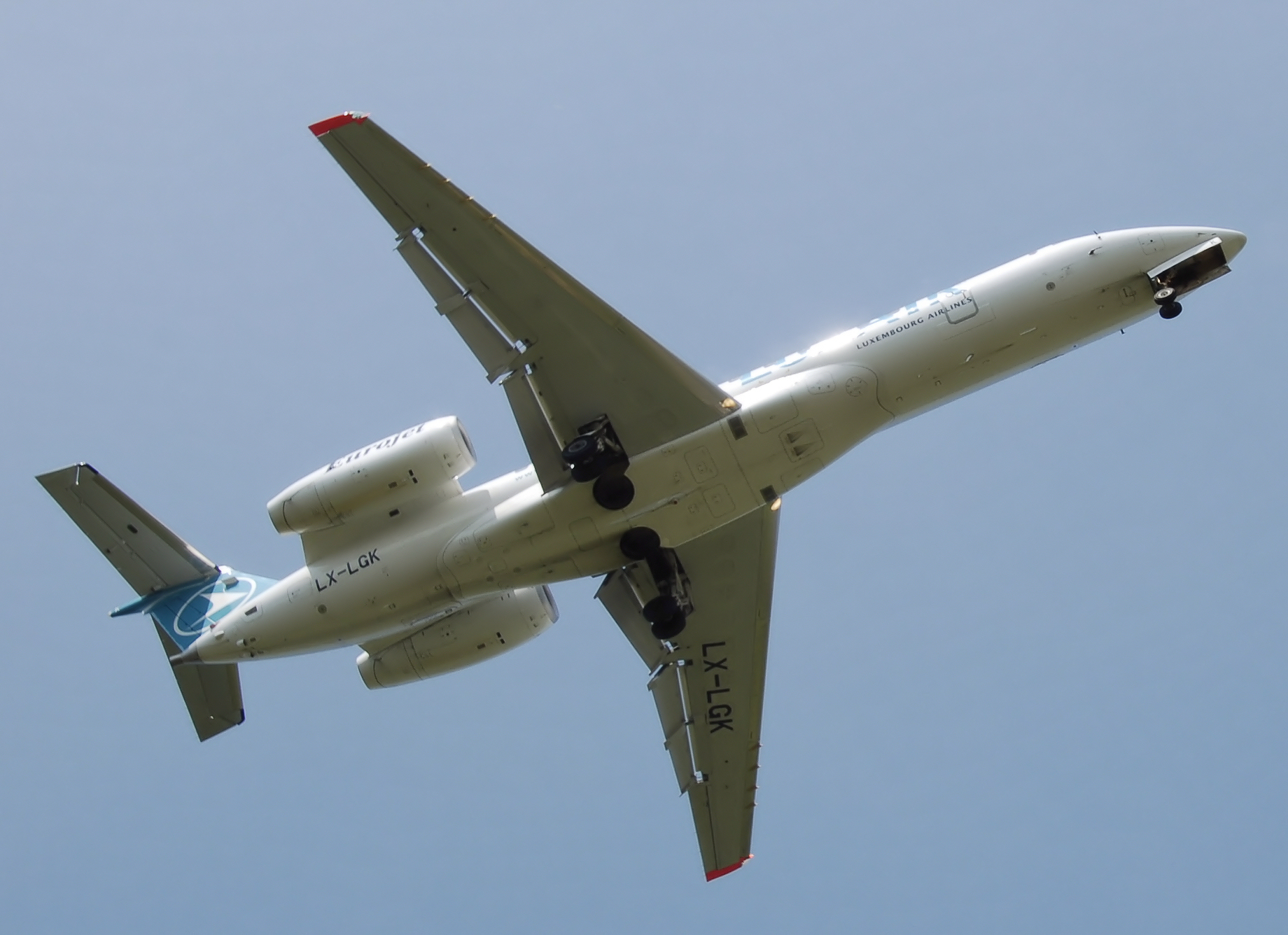 Luxair Embraer ERJ-135LR (LX-LGK) lands at London Heathrow Airport.